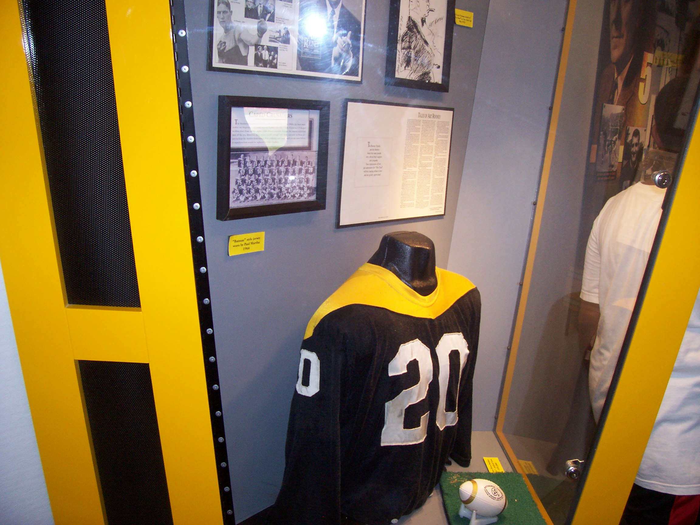 The Steelers infamous "Batman" uniforms from the 1967 season. This one was on display at the Traveling Coca-Cola Great Hall, taken by me 08/02/2007.